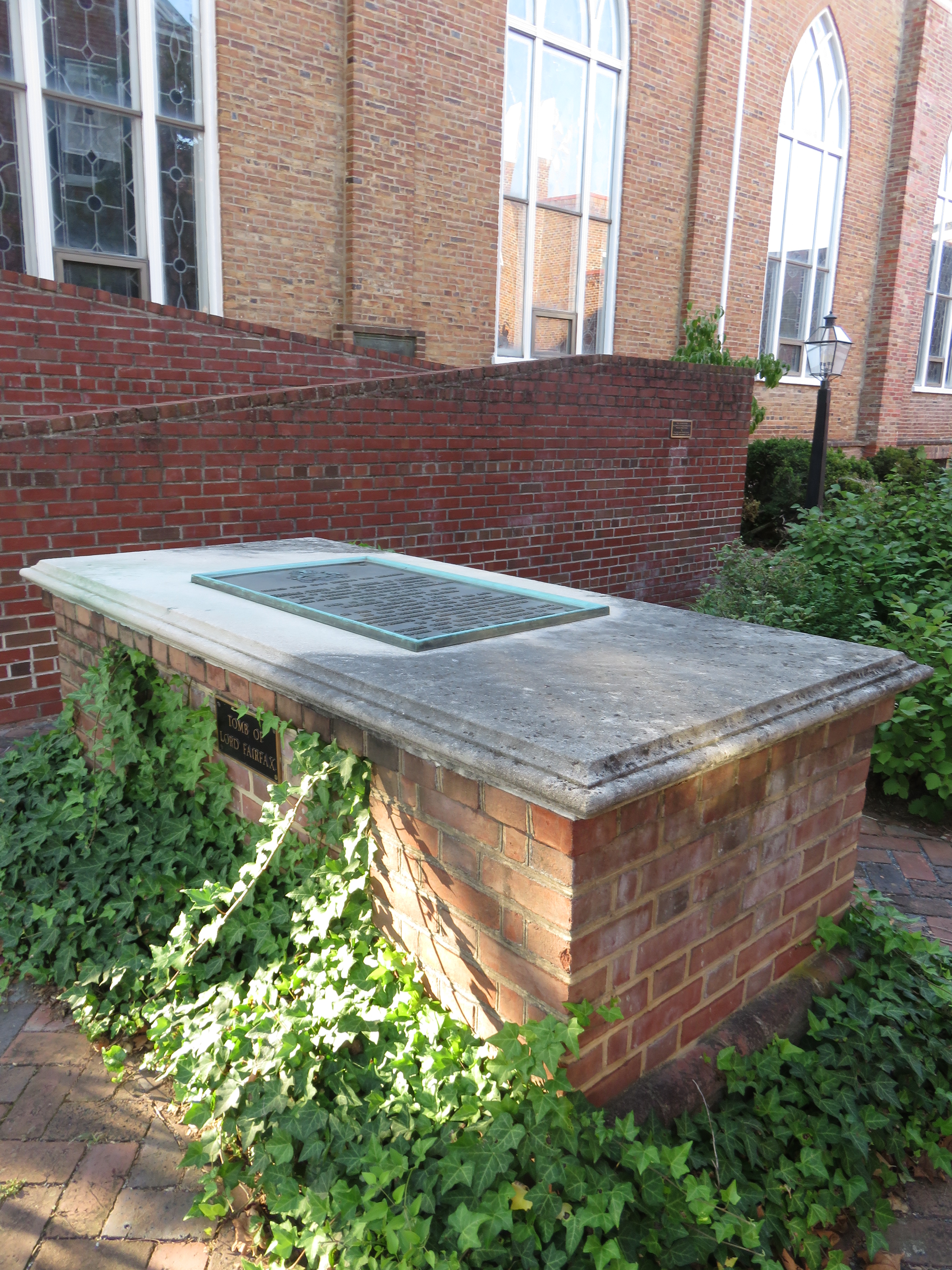 Tomb of Lord Fairfax outside Christ Episcopal Church in Winchester, Virginia in 2019